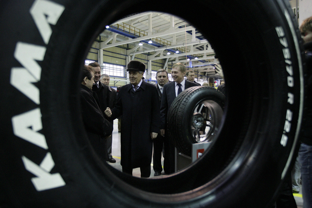 “Nizhnekamsk CMK Tyre Plant Opens in Tatarstan”. Tatarstan's President Mintimer Shaymiyev, center, at the opening ceremony of Nizhnekamsk CMK Tyre Plant.